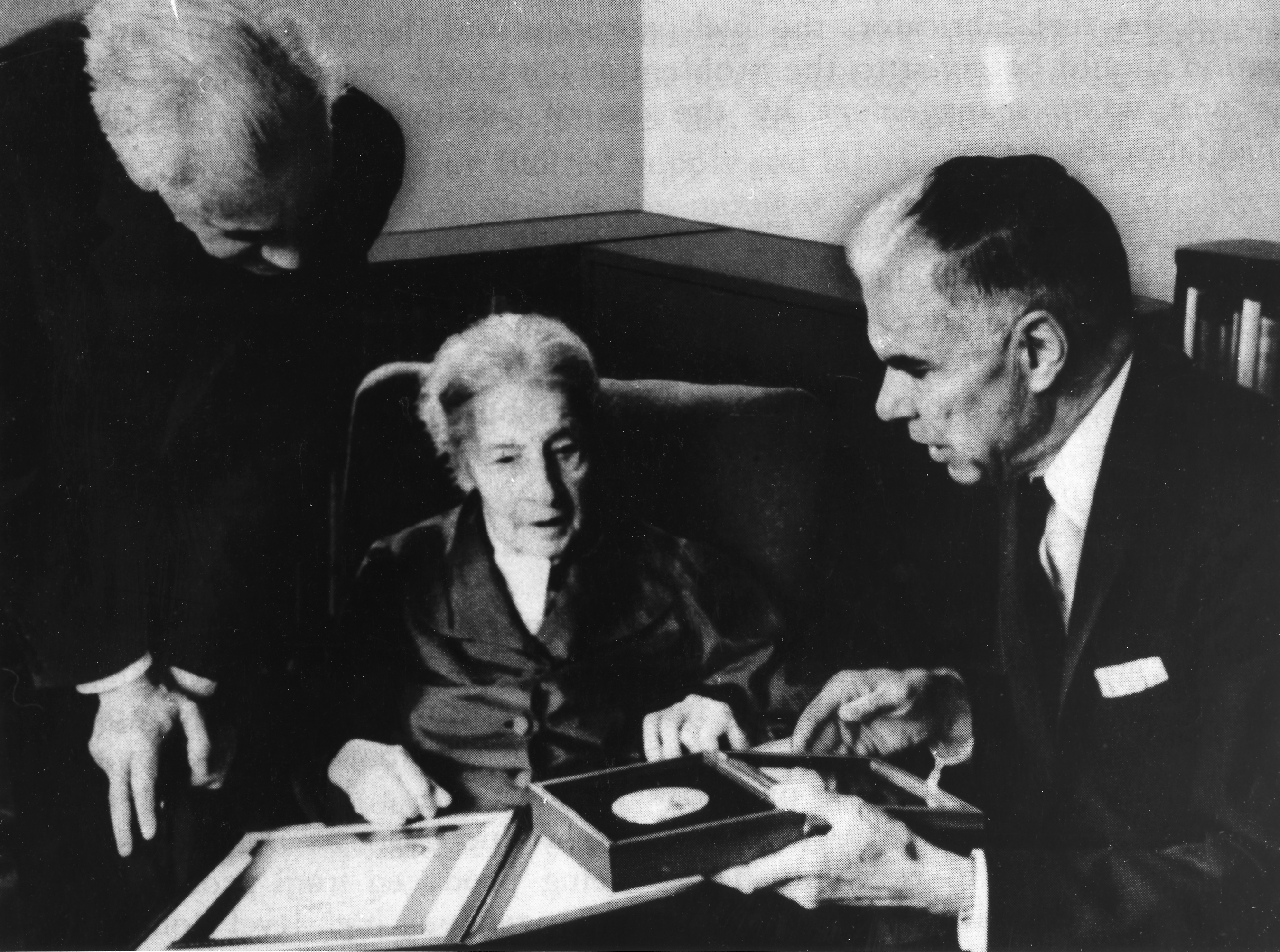 Lise Meitner receiving the Enrico Fermi she shared with with Hahn and Strassmann. Dr. Glenn Seaborg is presenting the award. Otto Frisch is on the left.